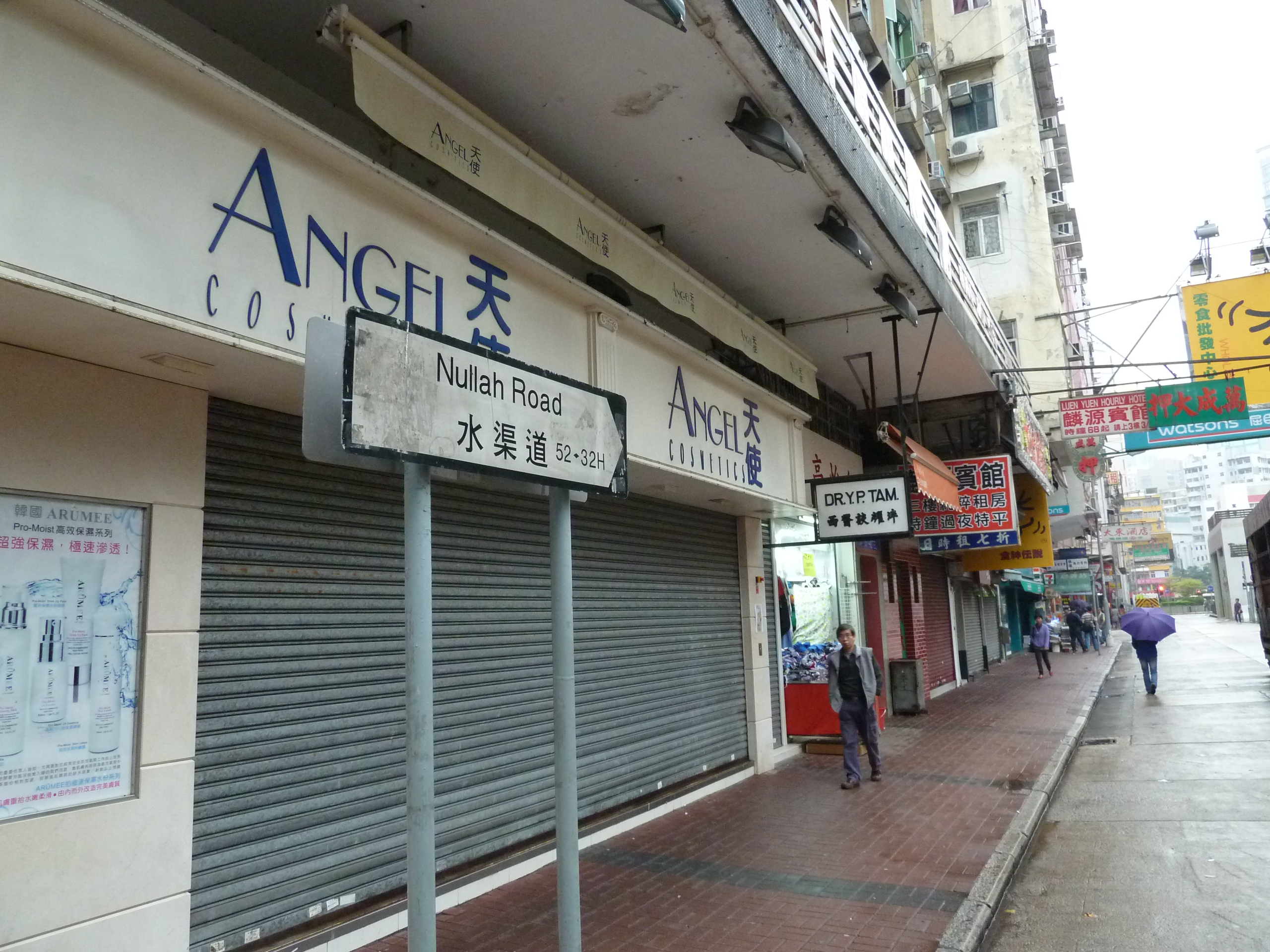 Street sign showing 'Nullah Street'